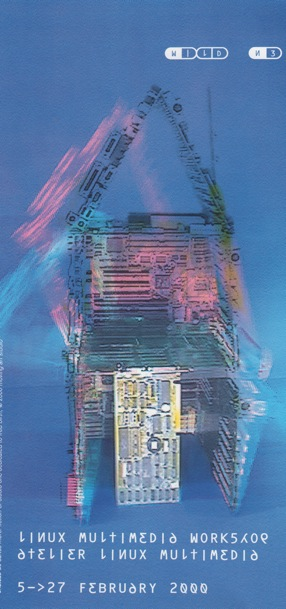 Invitation card Linux Multimedia Workshop held at Moving Art Studio, Brussels, in 2000